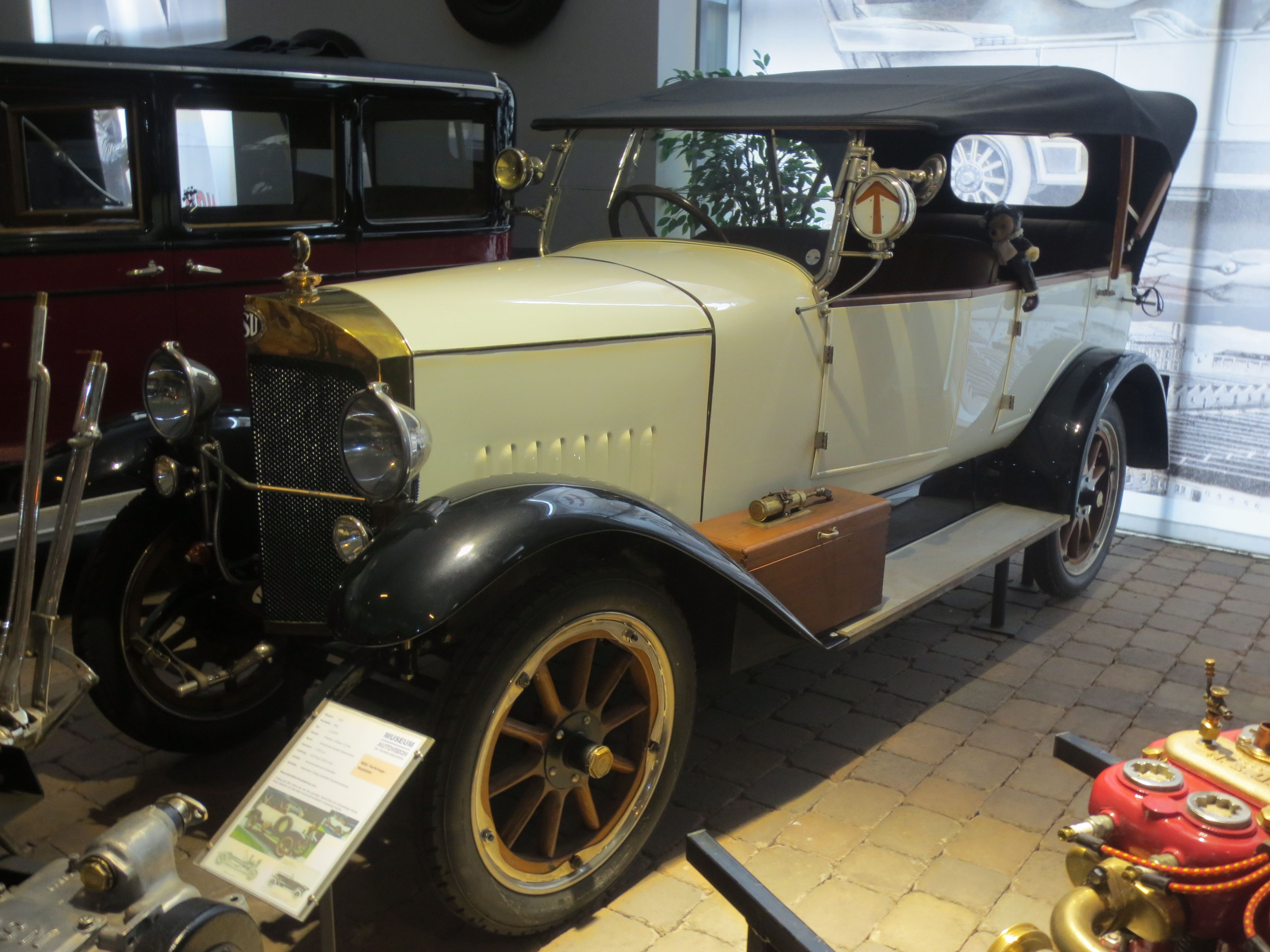 Subject: NSU 5/20 PS (1922) Author: Luc106 Date:October 9th, 2014 Place/Country: Autovision Museum, Altlußheim (Deutschland) I release all rights in the public domain. Licensing